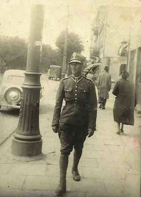 Soldier 81 pp.